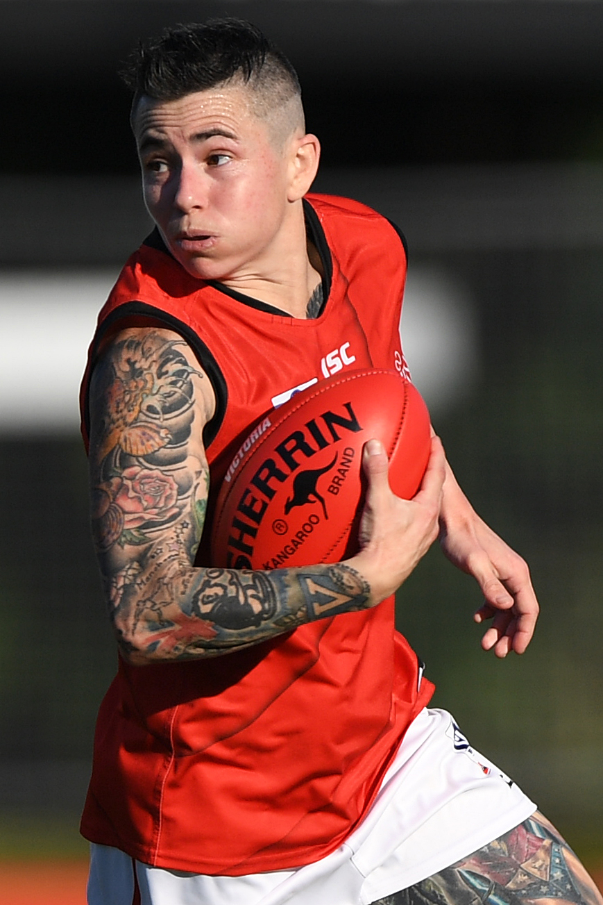 Cecilia McIntosh of Essendon during the 2019 VFLW Round 7 match between NT Thunder and Essendon at TIO Stadium on 22 June 2019 in Darwin, Australia.